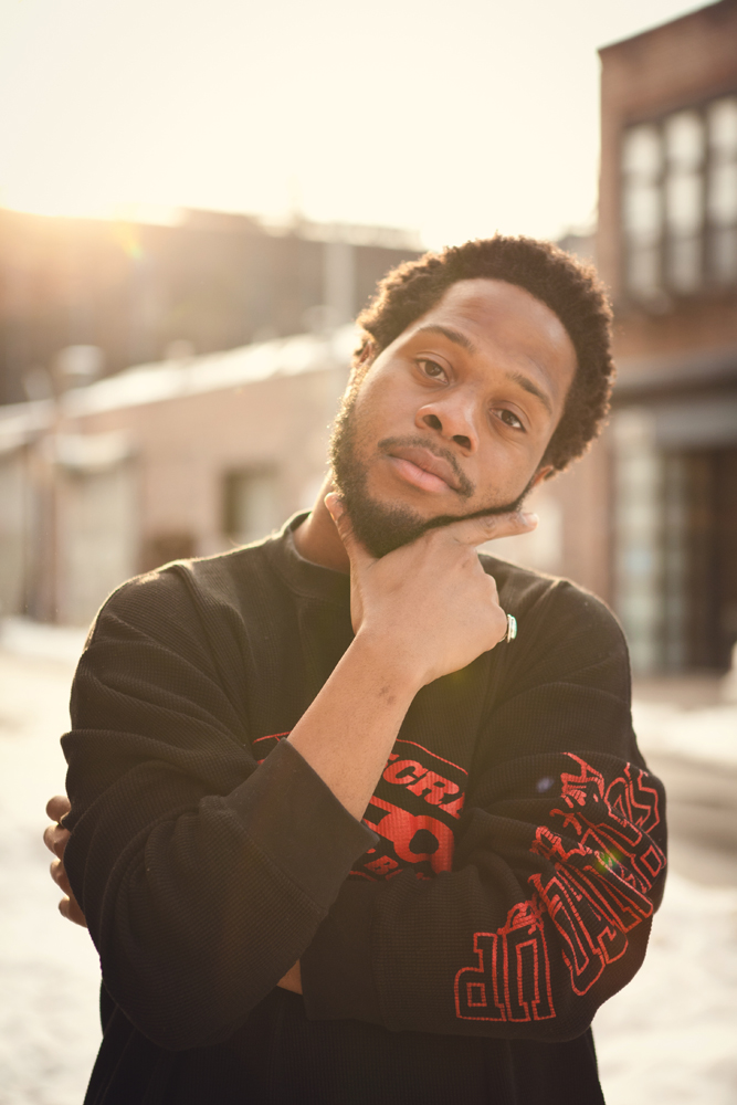 Image of musician Fat Tony taken in Brooklyn, NY in January 2013 by photographer Jessica Lehrman.